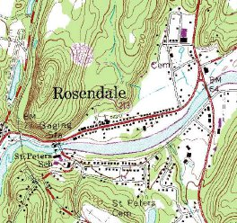 A crop of the Rosendale, New York, quadrangle, showing (roughly) the area constituting the former village of Rosendale. The contour interval is 20 feet (6.1 m).